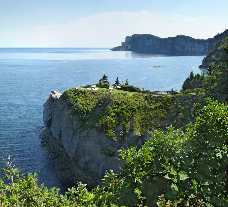 Forillon National Park, Gaspésie–Îles-de-la-Madeleine, Quebec, Canada. Cape Bon-Ami in the foreground and Cape Gaspé at the horizon.